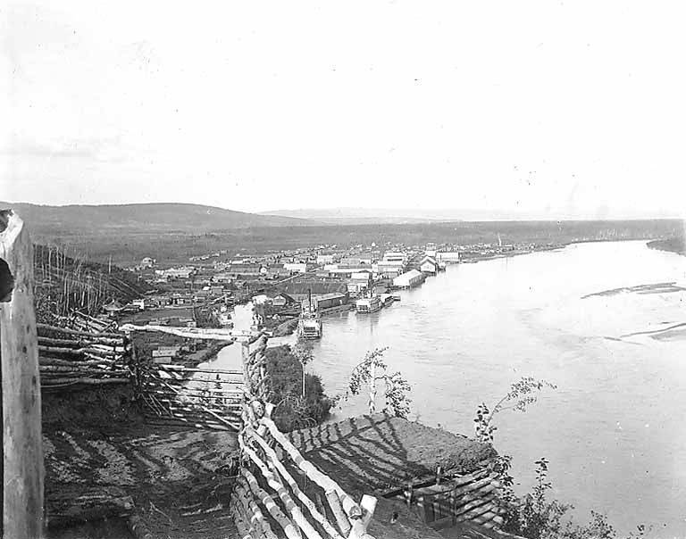 On verso of image: Chena, Alaska, 1907 Filed in Alaska--Cities--Chena Chena was located on the north bank of the Tanana River, 1 mile west of the mouth of the Chena River and 7 miles southwest of Fairbanks. The name was derived from the Chena River and was first reported in 1903. The village was called Chena Junction because it was the south teminus of the Tanana Valley Railroad; however, it was incorporated as Chena in 1903. With the growth of Fairbanks, Chena decreaased, having only 18 person in 1920. [Source: Donald Orth. Dictionary of Alaska Place Names: Geological Survey Professional Paper 567. Washington: United States Government Printing Office, 1967. Subjects (LCTGM): Rivers--Alaska Subjects (LCSH): Chena (Alaska); Tanana River (Alaska)